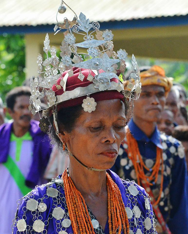 Banafi